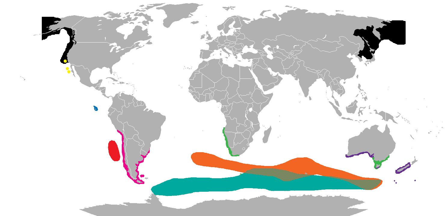 Geographic distribution of fur seals. Note that Arctocephalinae is probably paraphyletic and is being deprecated. Derived from constituent taxa. Largely the same as Arctocephalus.png Callorhinus ursinus Arctocephalus gazella Arctocephalus townsendi Arctocephalus philippii Arctocephalus galapagoensis Arctocephalus pusillus Arctocephalus forsteri Arctocephalus tropicalis Arctocephalus australis